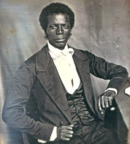 James M. Priest, three-quarter length portrait, full face, seated at desk. Vice President of Liberia under Daniel Bashiel Warner, 1864-1867; third president of Liberia, 1867.